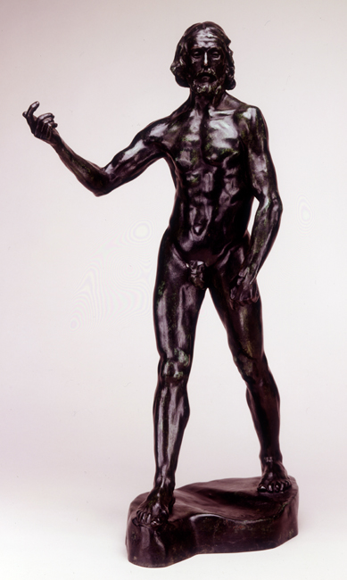 Depicted person: Saint John the Baptist